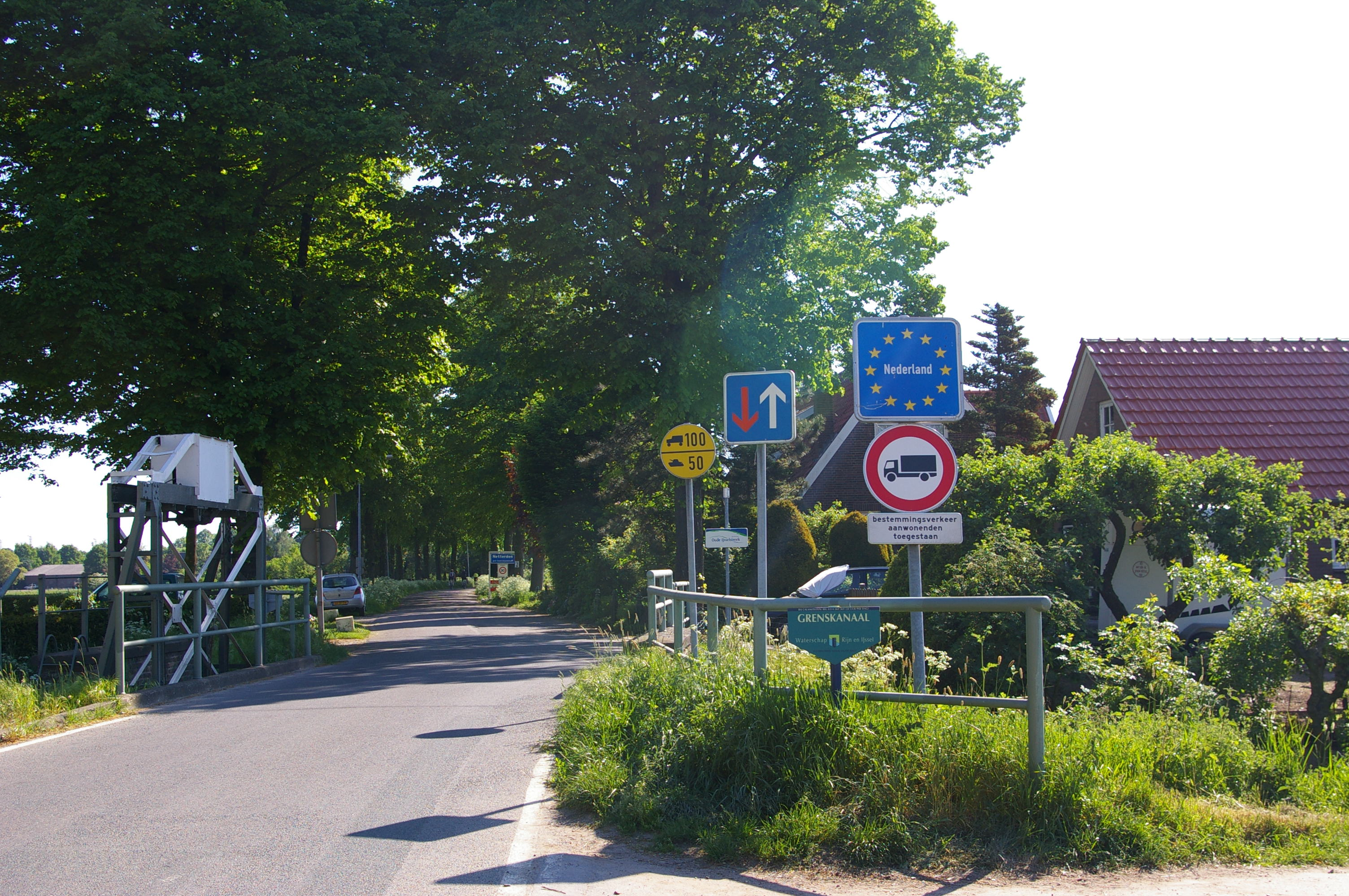 Dutch-German border near Netterden, municipality of Oude IJsselstreek, Achterhooek, Gelderland, the Netherlands